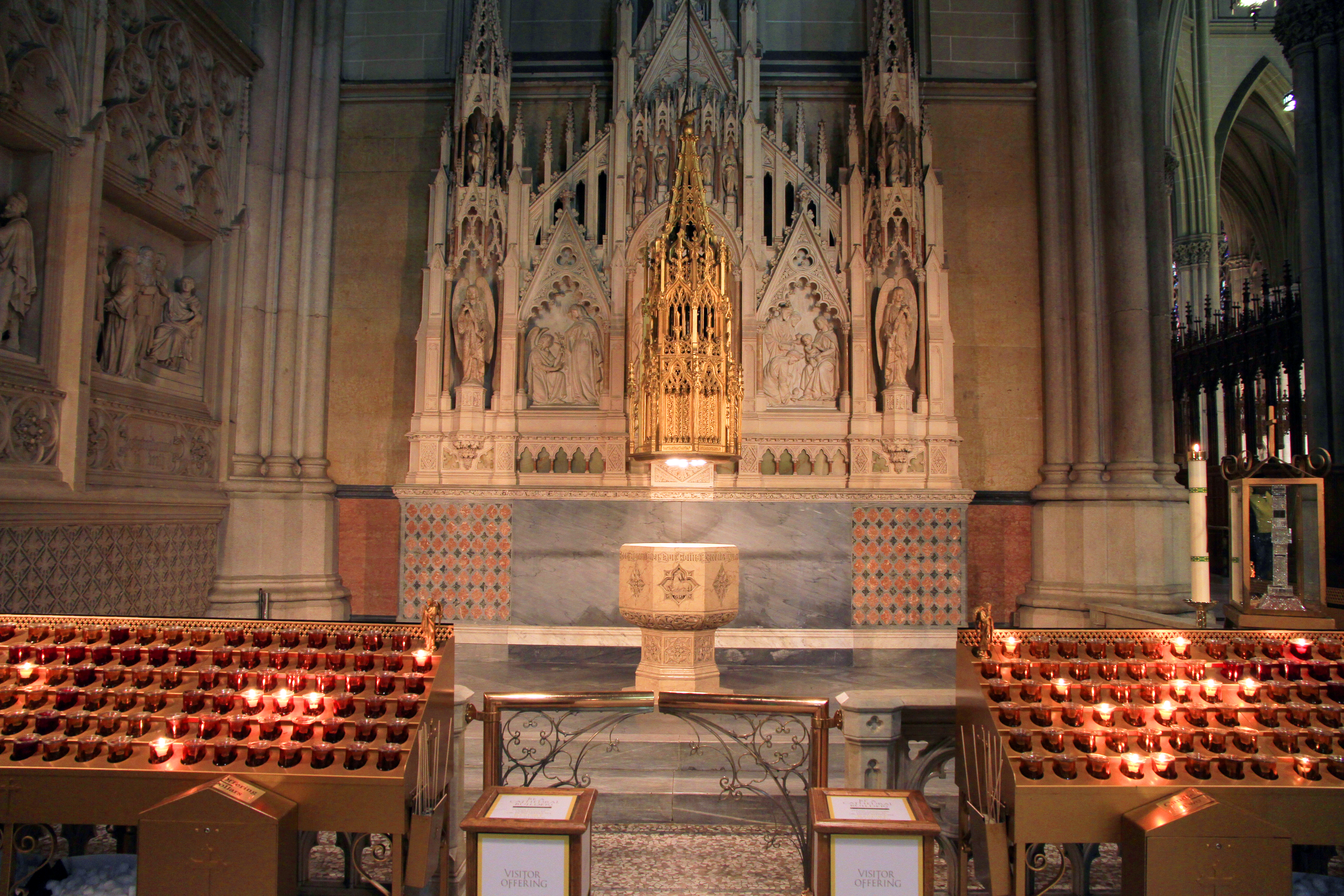 St. Patrick's Cathedral